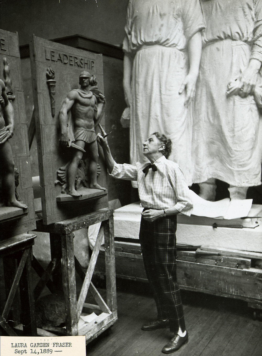 Sculptor of three relief portrait plaques of lawgivers in the House Chamber: Colbert, Edward I, Papinian.